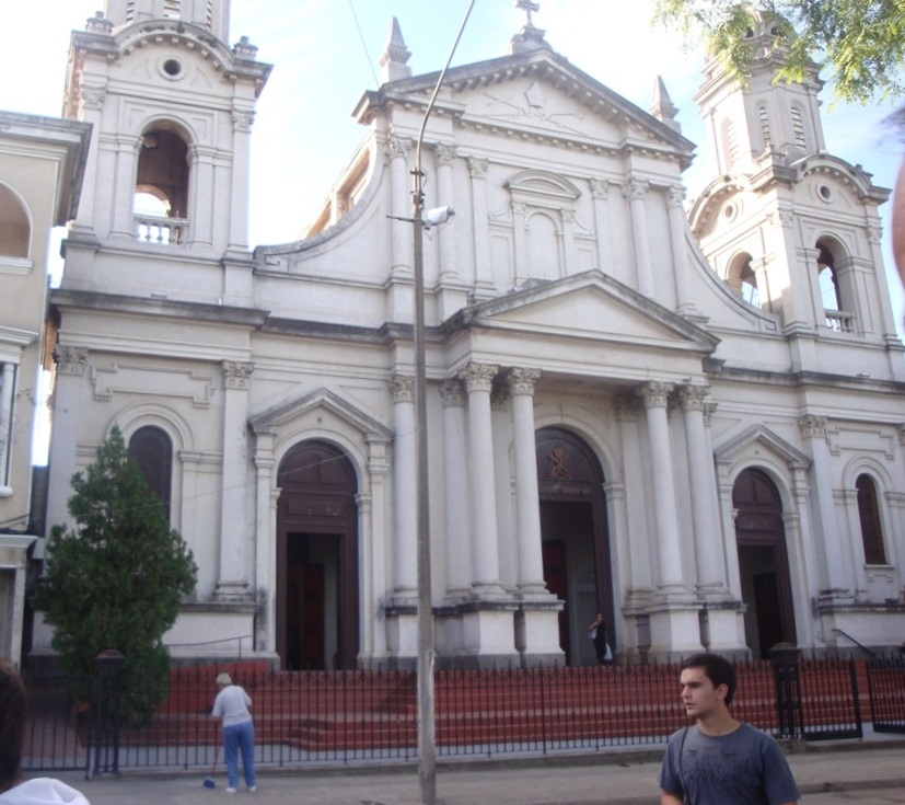 Catedral Basílica de San Juan Bautista, Diócesis de Salto, Uruguay